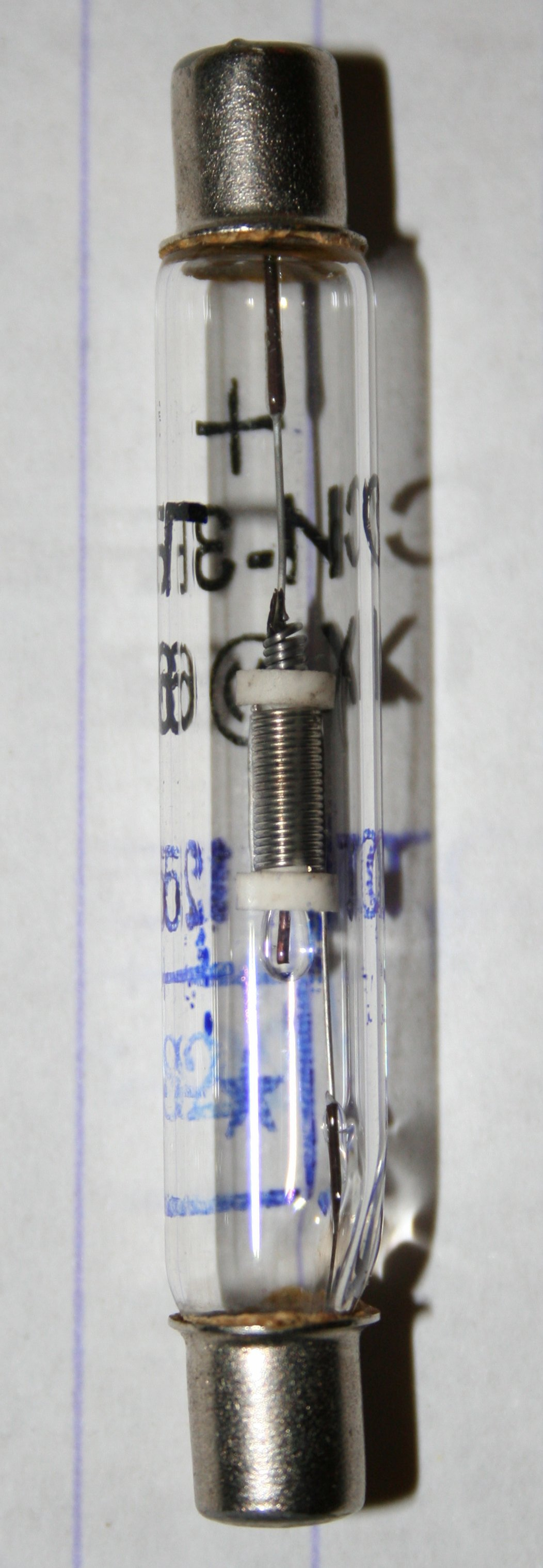 Soviet Geiger-Müller tube СИ3БГ